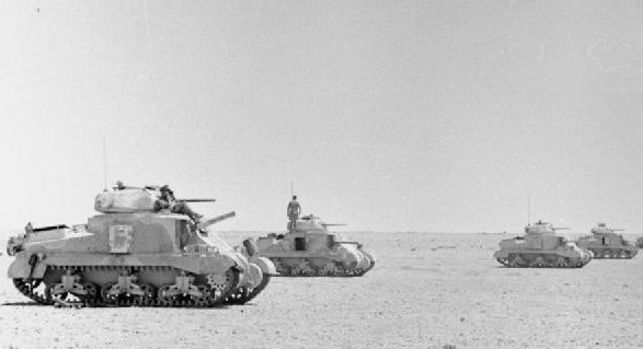 The British Army in North Africa 1942 Grant tanks of 22nd Armoured Brigade, 7th Armoured Division, waiting to go into action in the Western Desert, 28 July 1942.